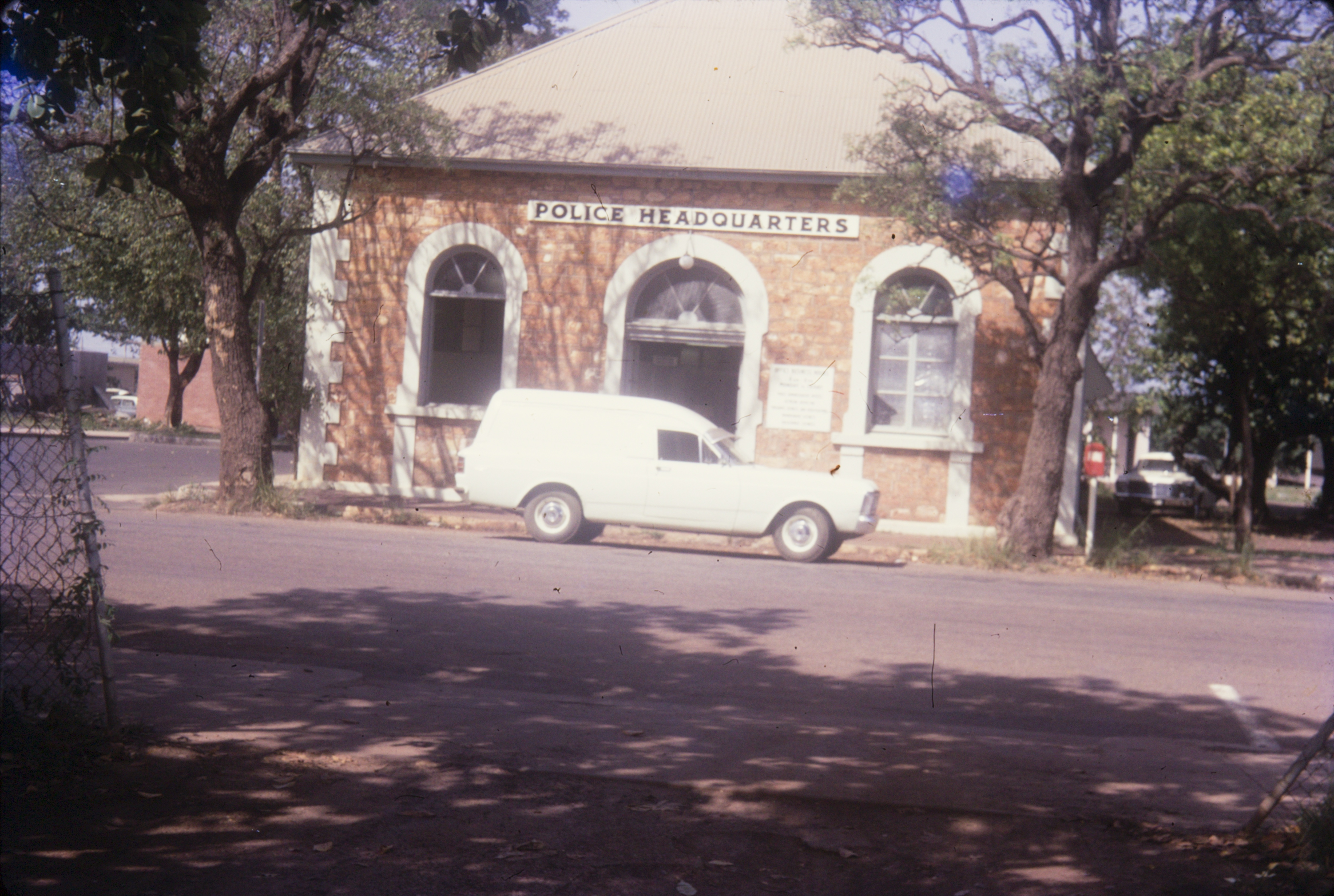 Brown's Mart Police Headquarters, Darwin - PH0049-0385